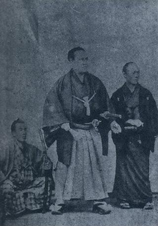 picture of 12th yokozuna, Jinmaku